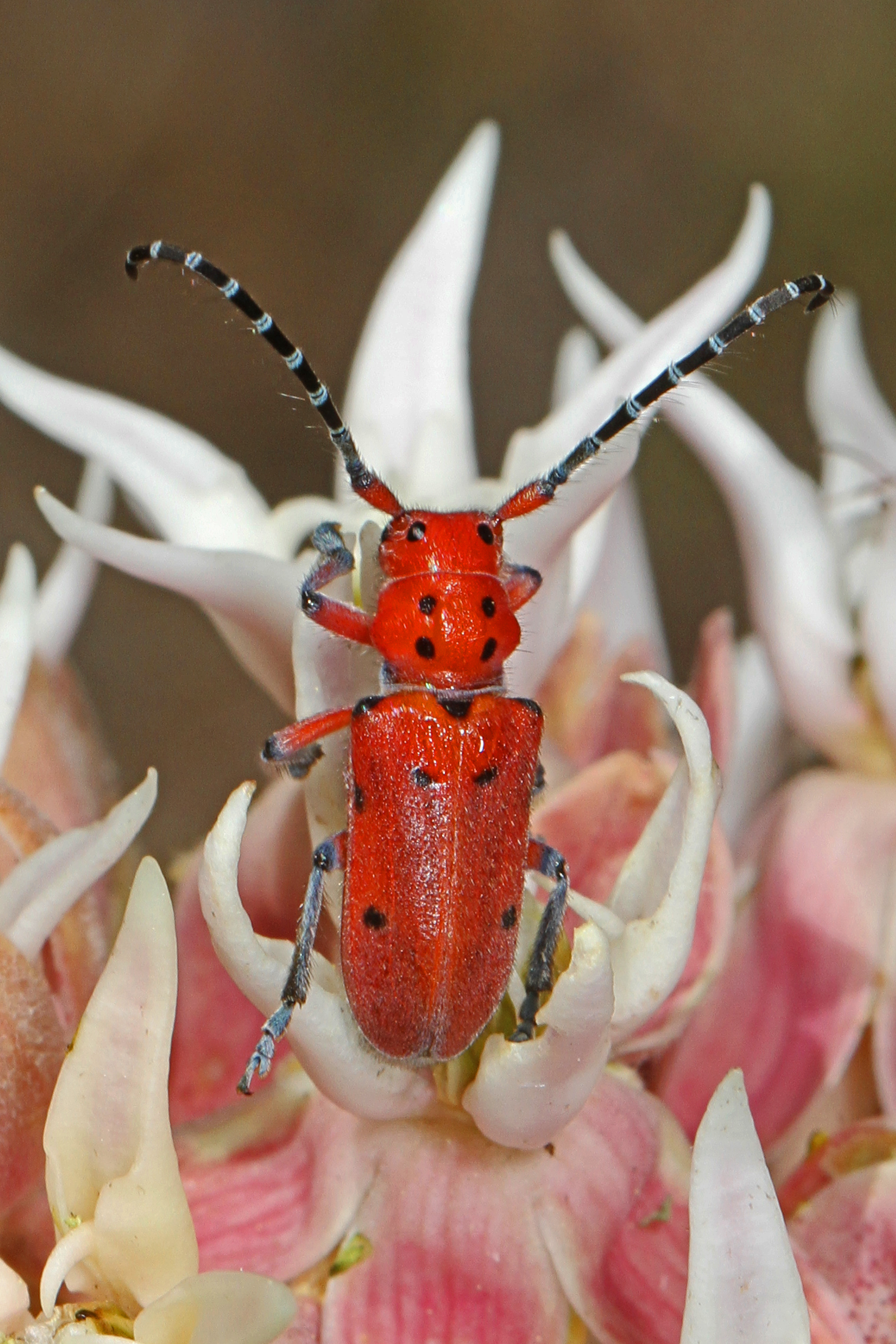 Red-femured Milkweed Borer - Tetraopes femoratus, Sattley, California. This is in the same genus as our commoner eastern Red Milkweed Beetle.